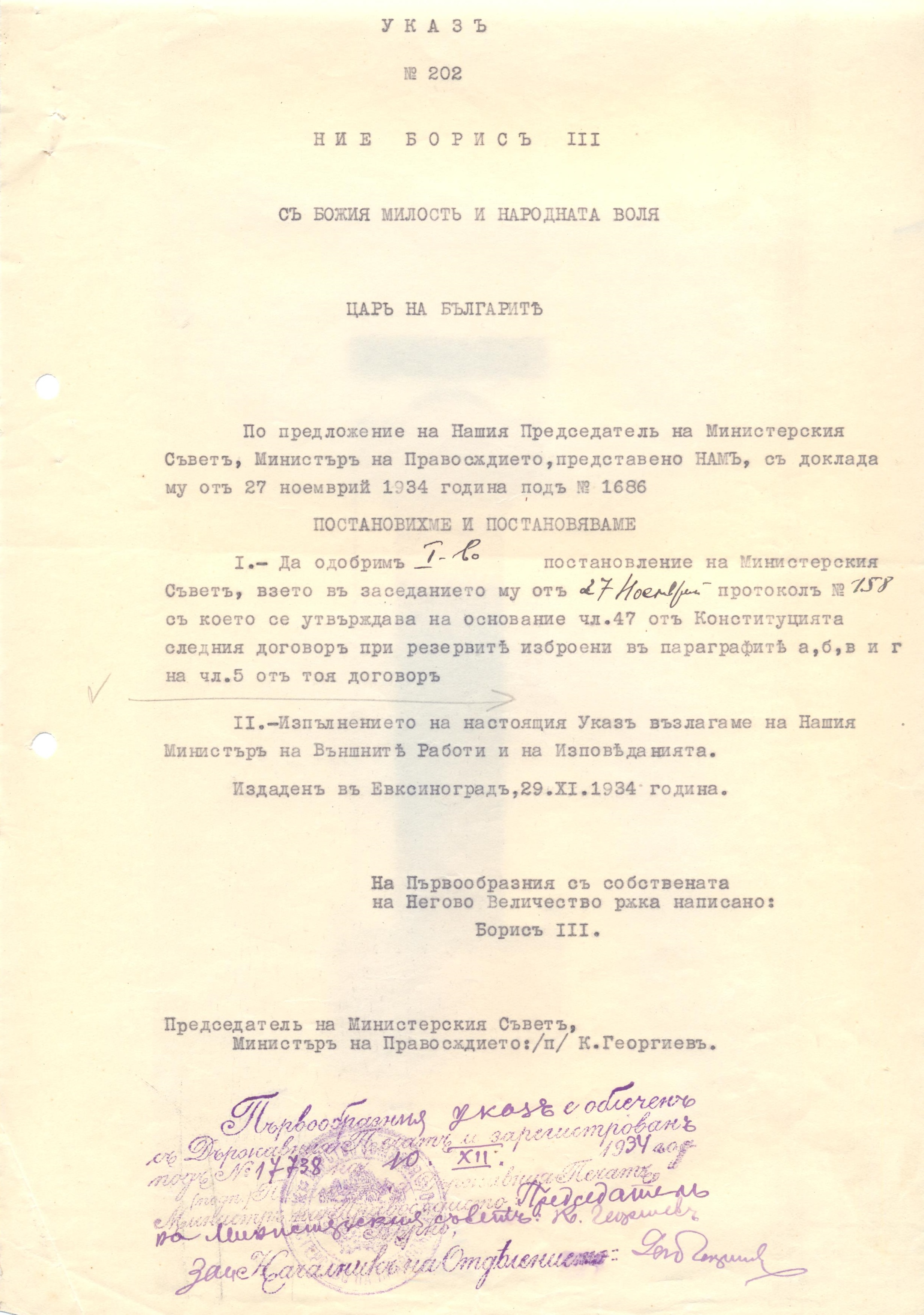 Ukase 202/1934 - Tratado antibélico de no agresion y de conciliacion.